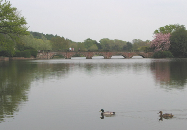 Ornamental lake, Capesthorne Hall